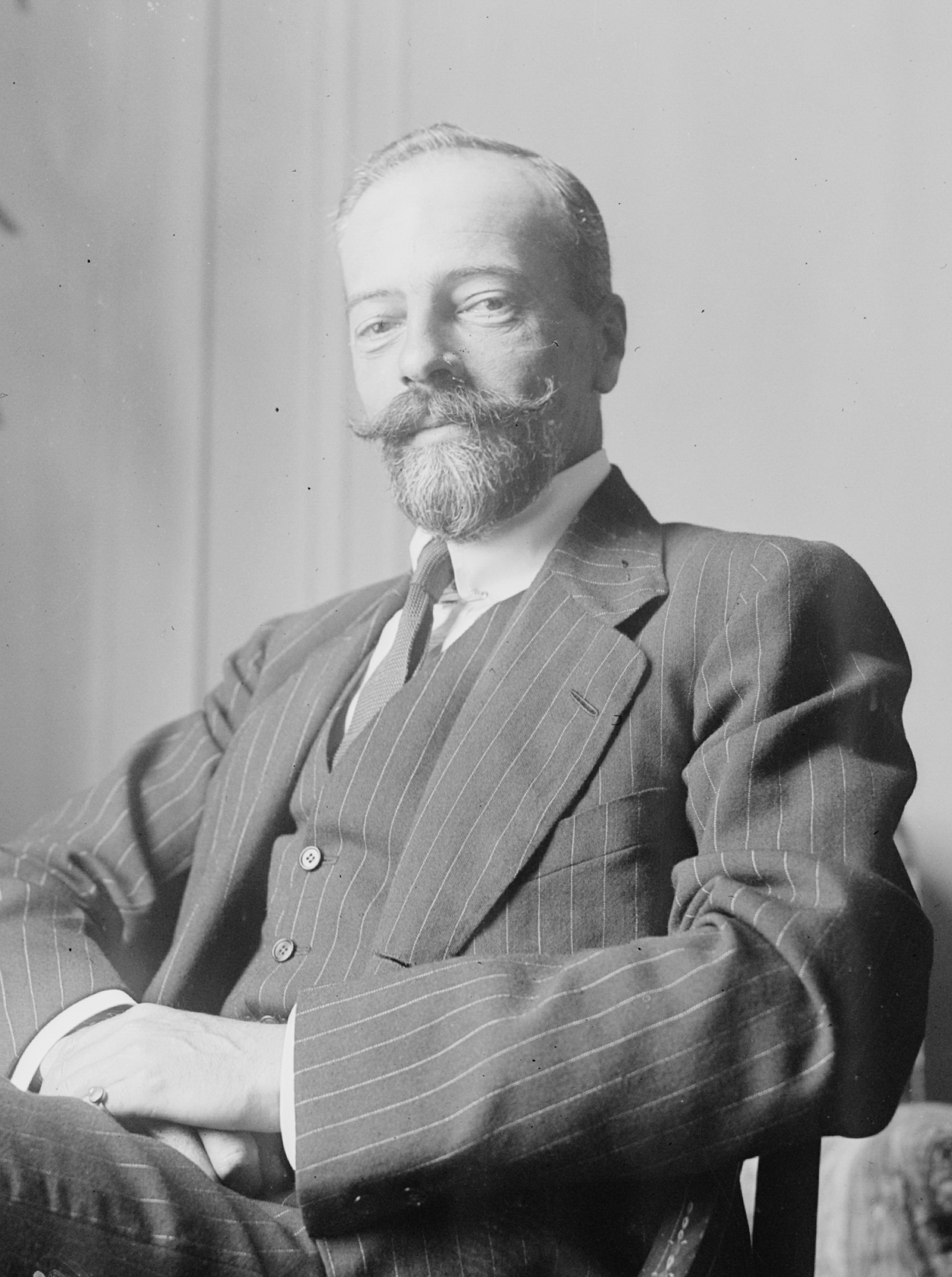 Bain News Service, publisher. Grand Duke Alexander Mikhailovich of Russia 1 negative : glass ; 5 x 7 in. or smaller. Notes: Title from unverified data provided by the Bain News Service on the negatives or caption cards. Forms part of: George Grantham Bain Collection (Library of Congress). Format: Glass negatives. Repository: Library of Congress, Prints and Photographs Division, Washington, D.C. 20540 USA, General information about the Bain Collection is available at Persistent URL: Call Number: LC-B2- 2826-2